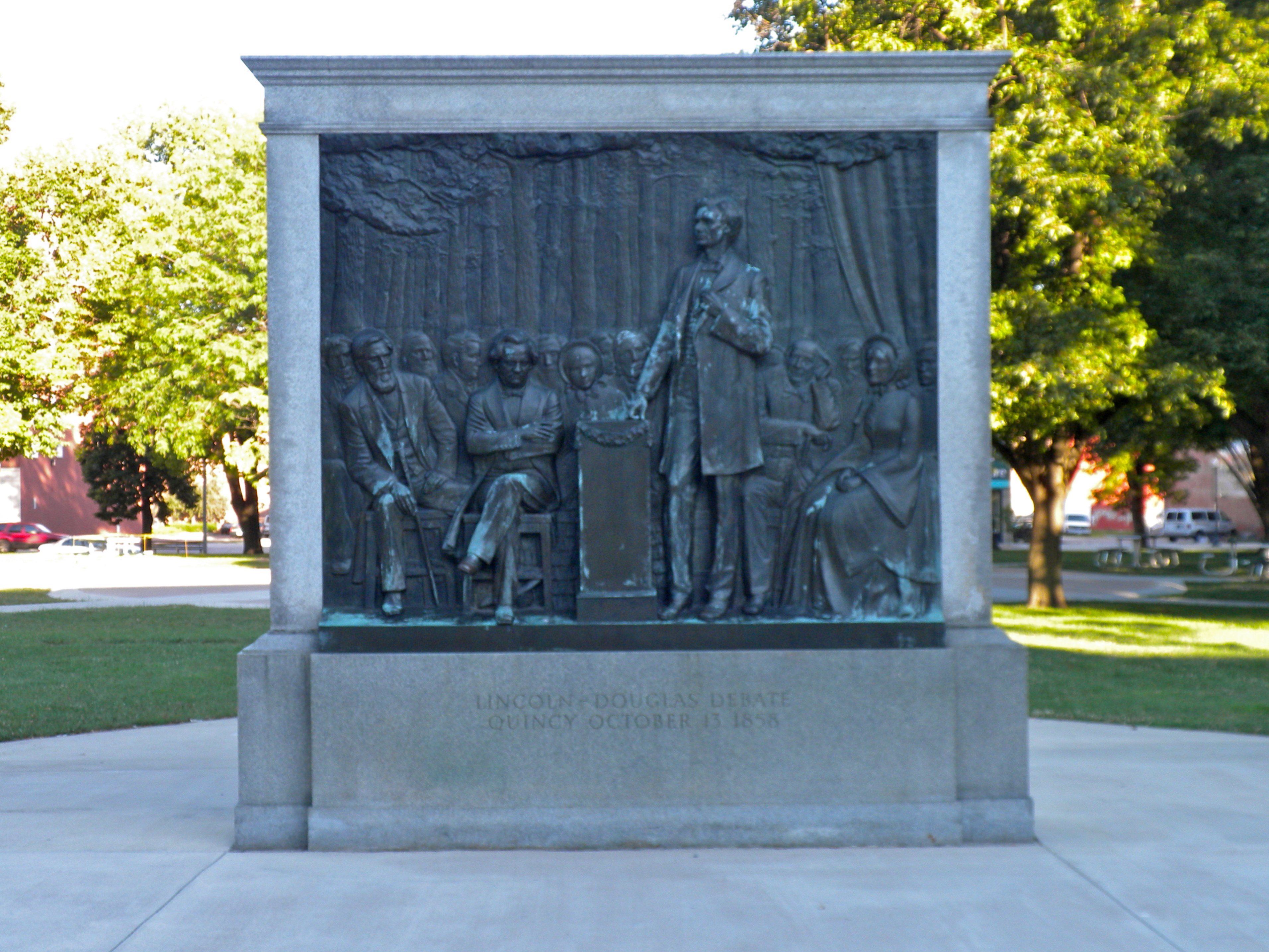 Tablet of Lincoln Douglas Debate in Quincy, Illinois in Washington Park (site of debate) in downtown Quincy. Tablet is by the sculptor Lorado Taft, and this is the last commission that he executed before his death in 1936. Washington Park is the focus of downtown Quincy which is on the NRHP as Downtown Quincy Historic District (since April 7, 1983). The historic district is roughly bounded by Hampshire, Jersey, 4th and 8th Sts.